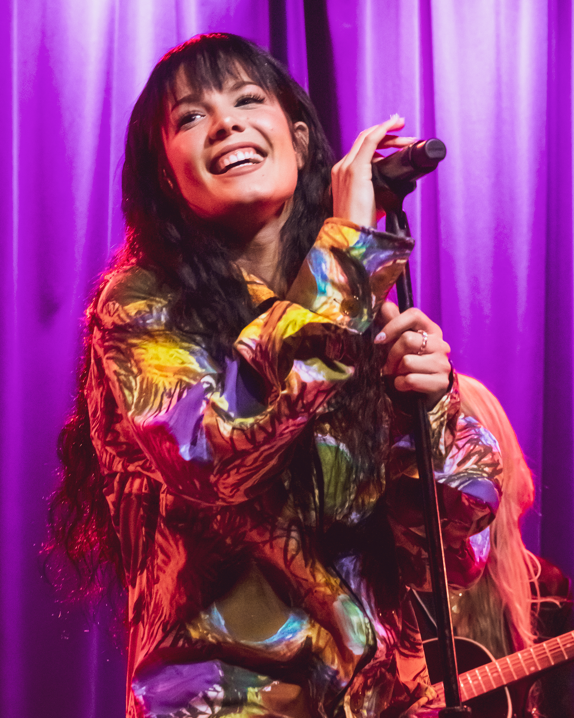 Halsey performing live at the Grammy Museum in Los Angeles on 09/23/2019.